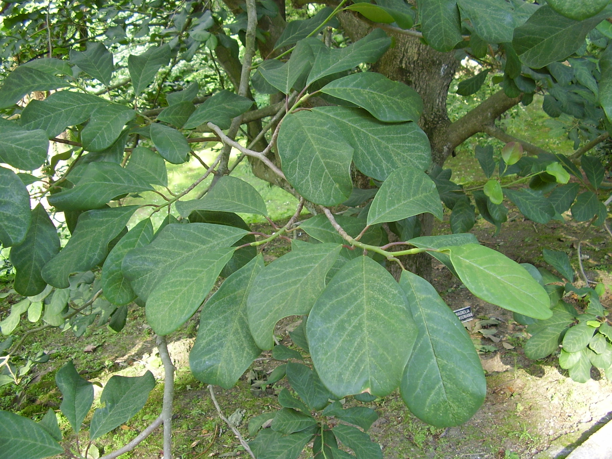 Photo taken by me in June 2006. Shows leaves on a Magnolia dawsoniana growing in Italy. Björn Carlsson, 2006